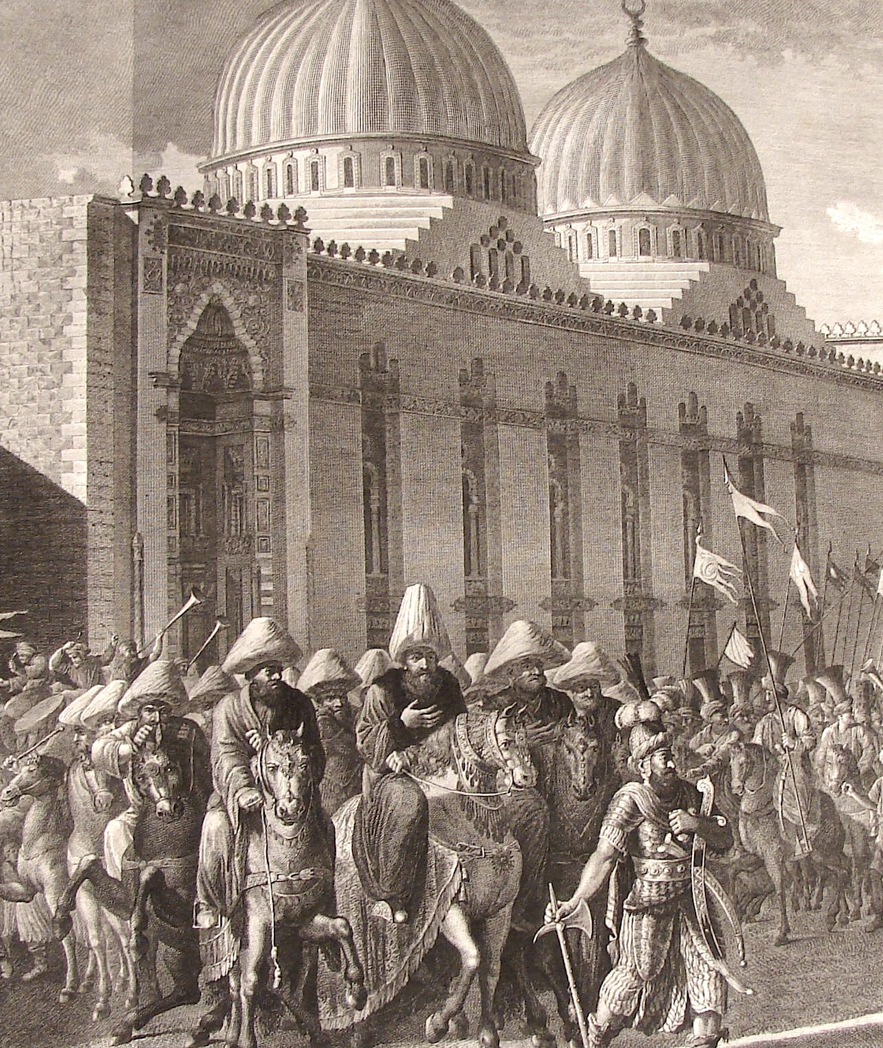 Abbas Pacha's arrival in Cairo - Egypt Old engravement